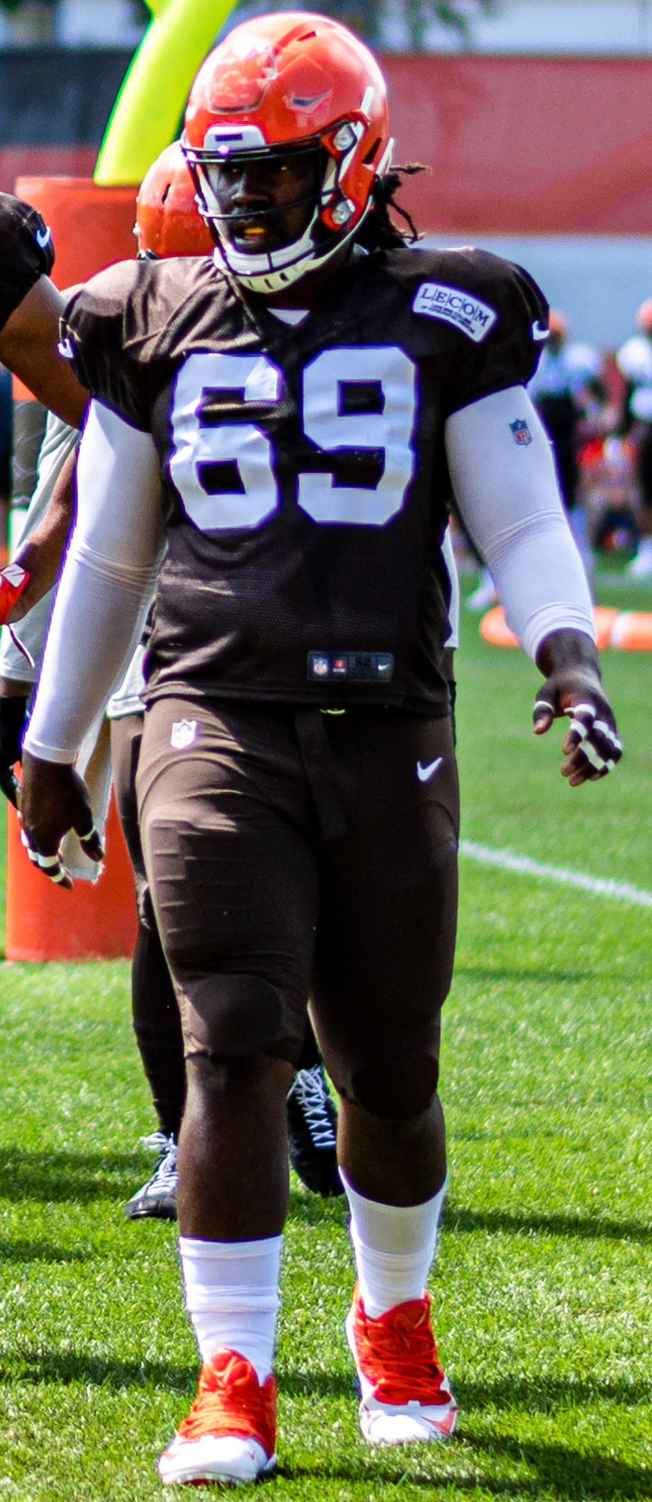 2019 Cleveland Browns Training Camp